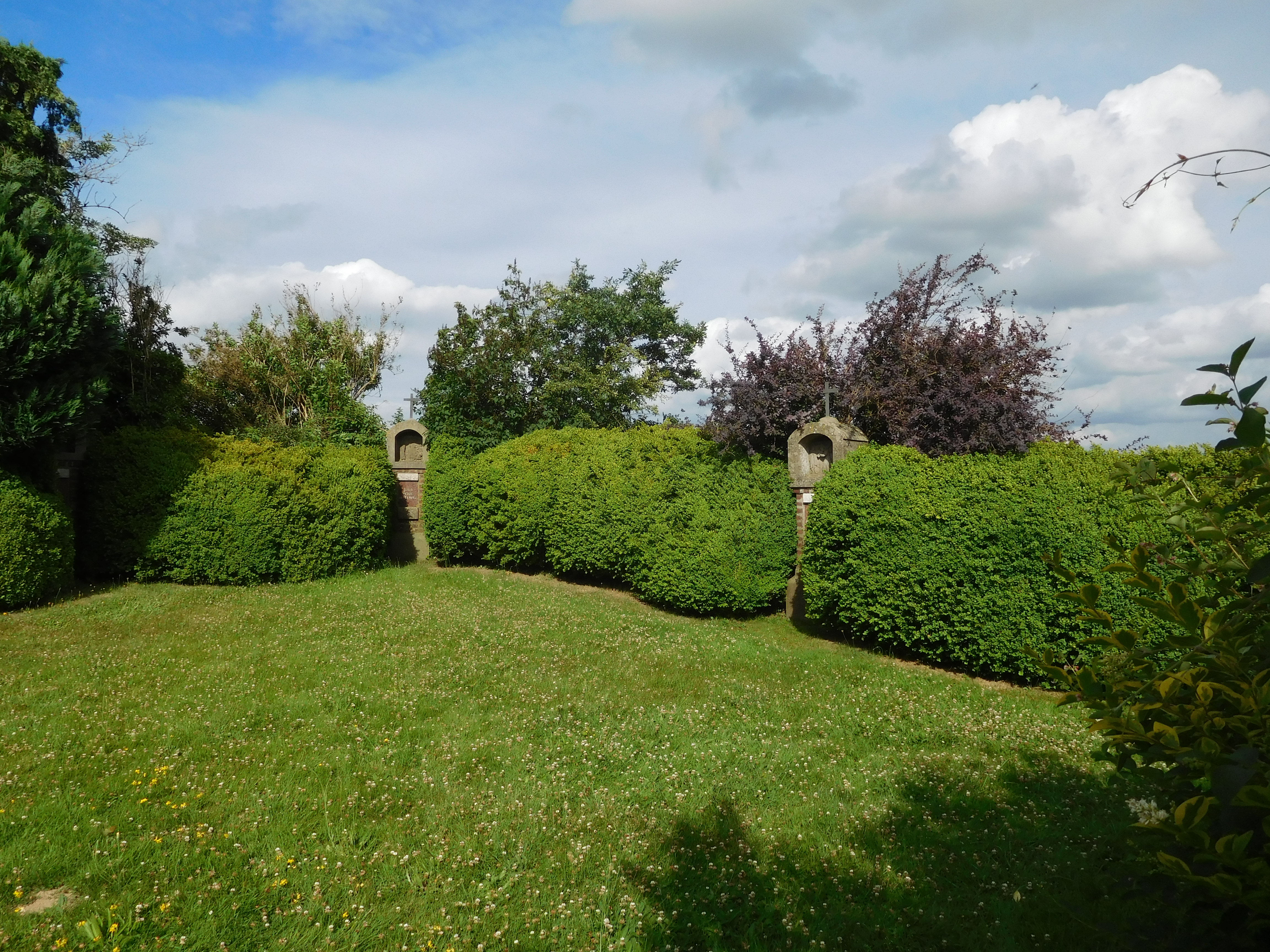 Behind the chapel of 'Belles-Pierres' there is a little garden with the stations of the Seven Doulours of Our Lady